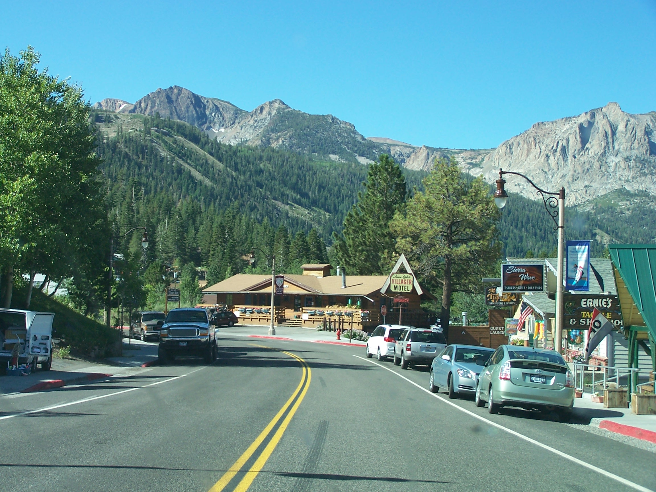 June Lake is a small town east of Yosemite National Park, California, USA